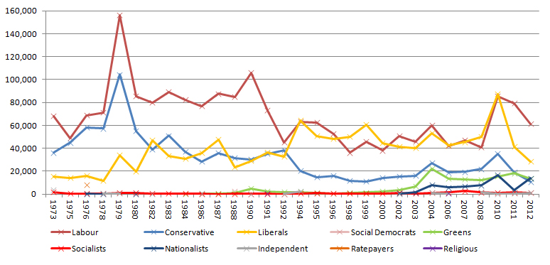 A graph showing the total popular vote numbers for each political party in local elections in Sheffield, UK, 1973–2011. Labour: Labour, Independent Labour Conservative: Conservative, Independent Conservative Liberals: Liberal, SDP-Liberal Alliance, SLD, Liberal Democrats Social Democrats: SDP (1979), SDP (1988) Greens: Ecology, Christian Ecology, Green, Independent Green Socialists: CPGB, Worker's Revolutionary, Revolutionary Communist, Communist League, Militant Labour/Socialist Party, Socialist Alliance, Socialist Labour, SWP, Democratic Socialist Alliance, Left List, Respect, Socialist Equality, TUSC Nationalists: British Nationalist, British Movement, National Front, BNP, English Democrats, UKIP Independent: Independents Ratepayers: Ratepayers Religious: Islamic, Christian People's.